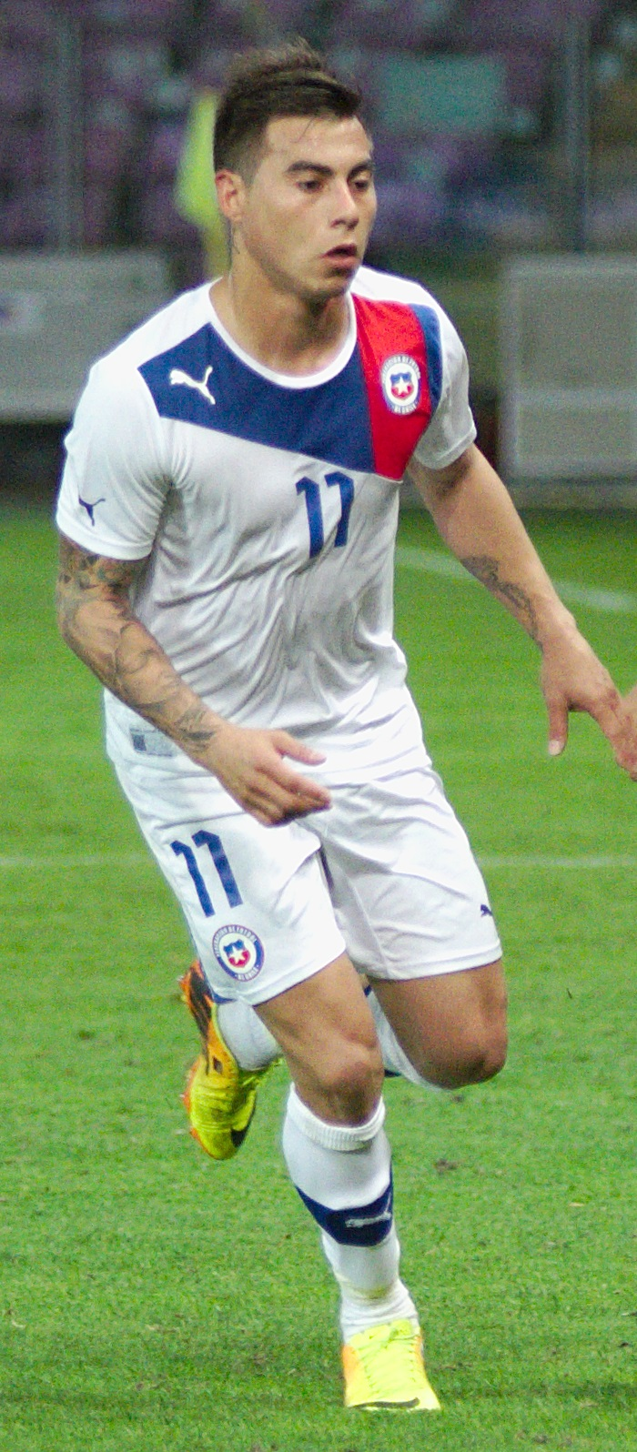 Spain - Chile - 10-09-2013 - Geneva - Eduardo Vargas